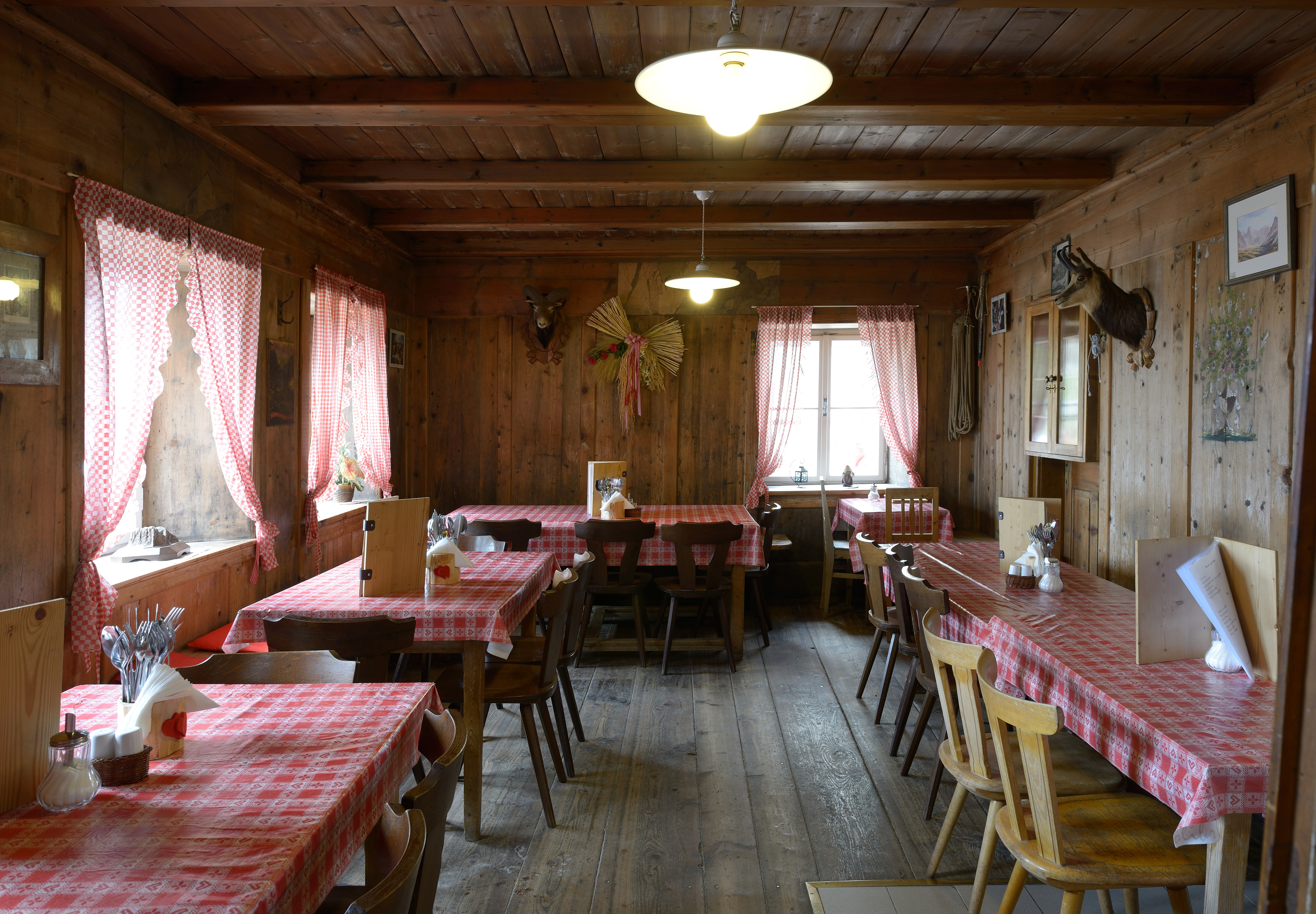 Restaurant in the Langkofelhütte in Val Gardena